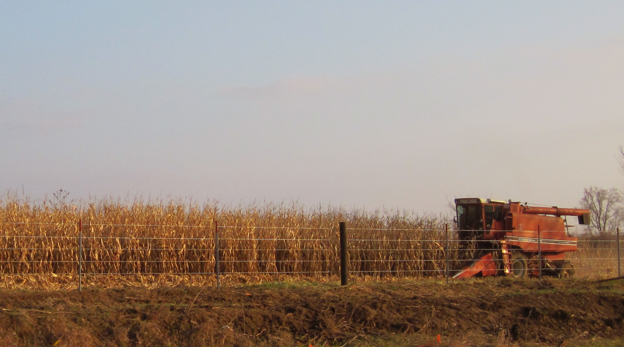 Corn harvest with an IHC International combine harvester, Jones County, Iowa, USA